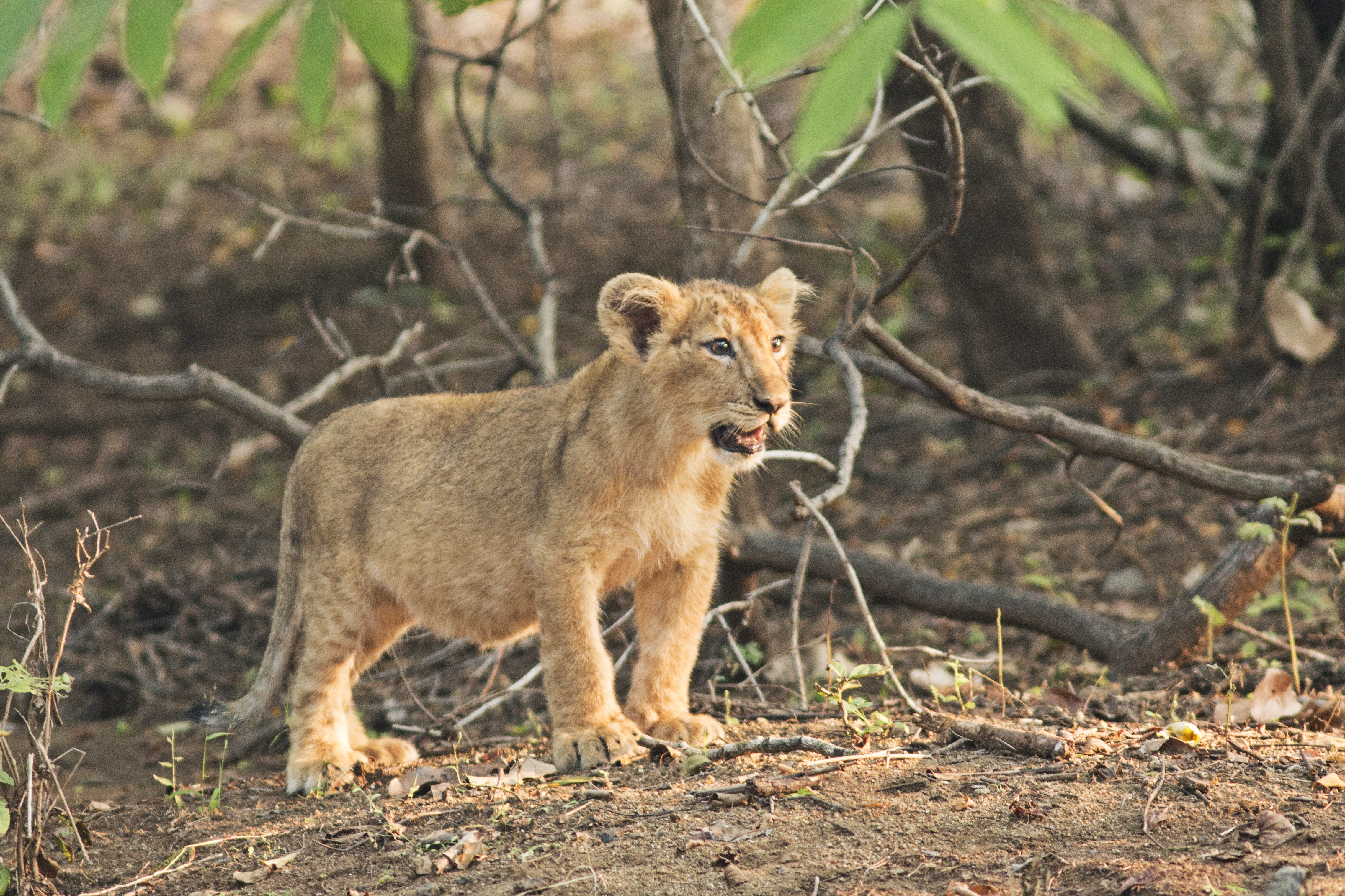 Image was clicked at Gir National Park and Wildlife Sanctuary, Sasan, Gujarat, India